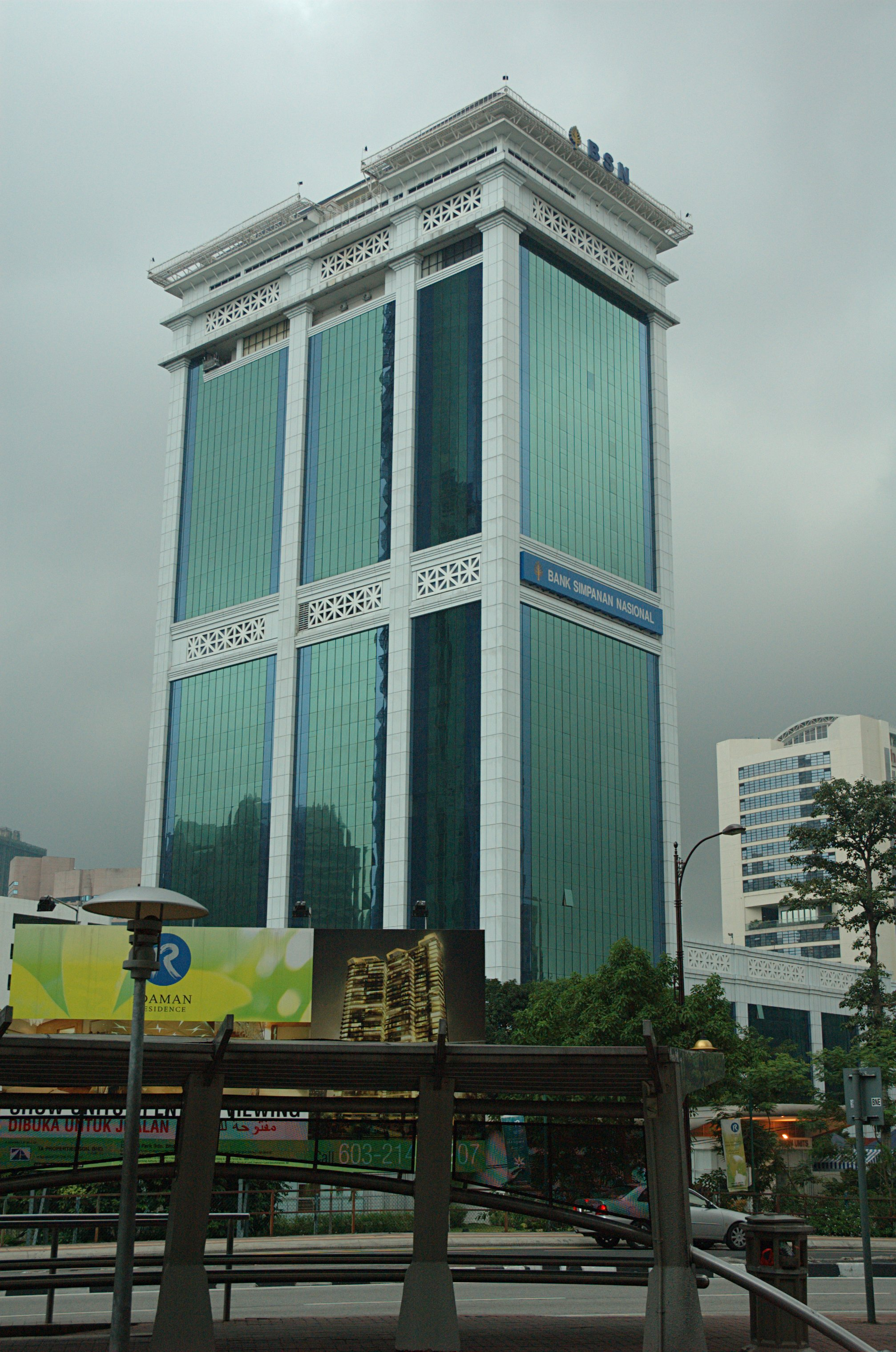 The Wisma BSN building in Kuala Lumpur, the head office of Bank Simpanan Nasional.